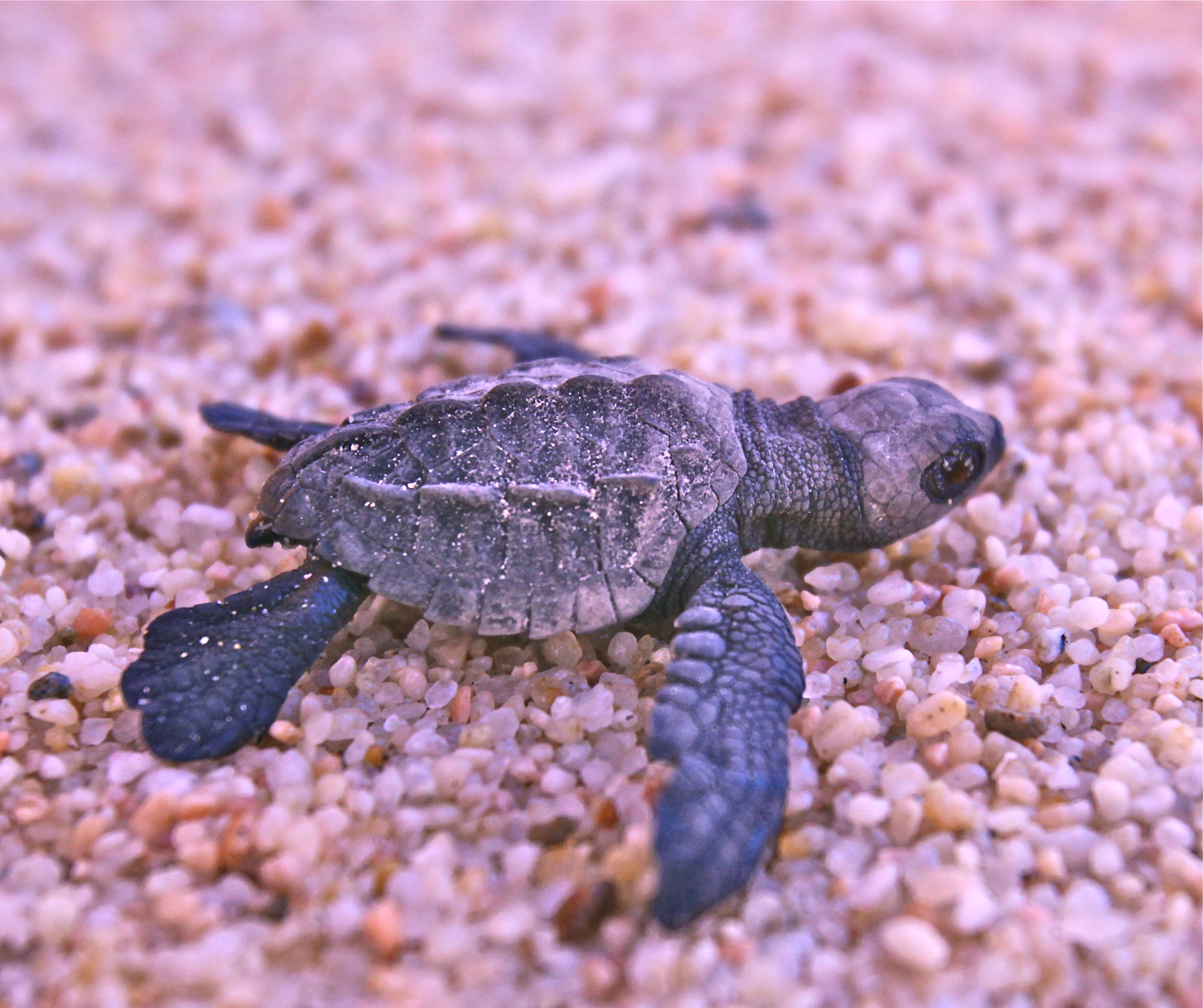 An olive ridley sea turtle hatchling after being released from a sanctuary in Mexico.